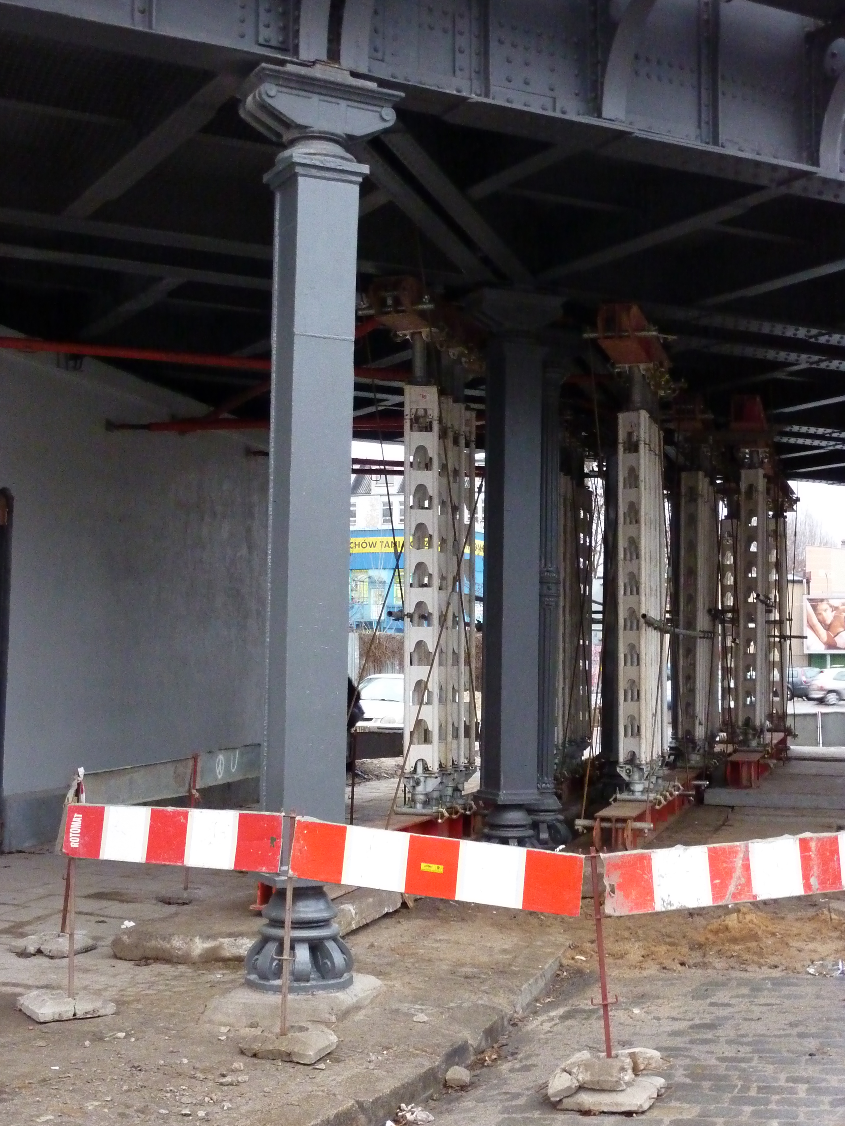 Renovation of railway bridge over Stysia Street (Wrocław, Poland). Two square poles on foreground are steel-made after WWII destruction in 1945; next ones are iron-made (ca. 1895) Hartung's poles.